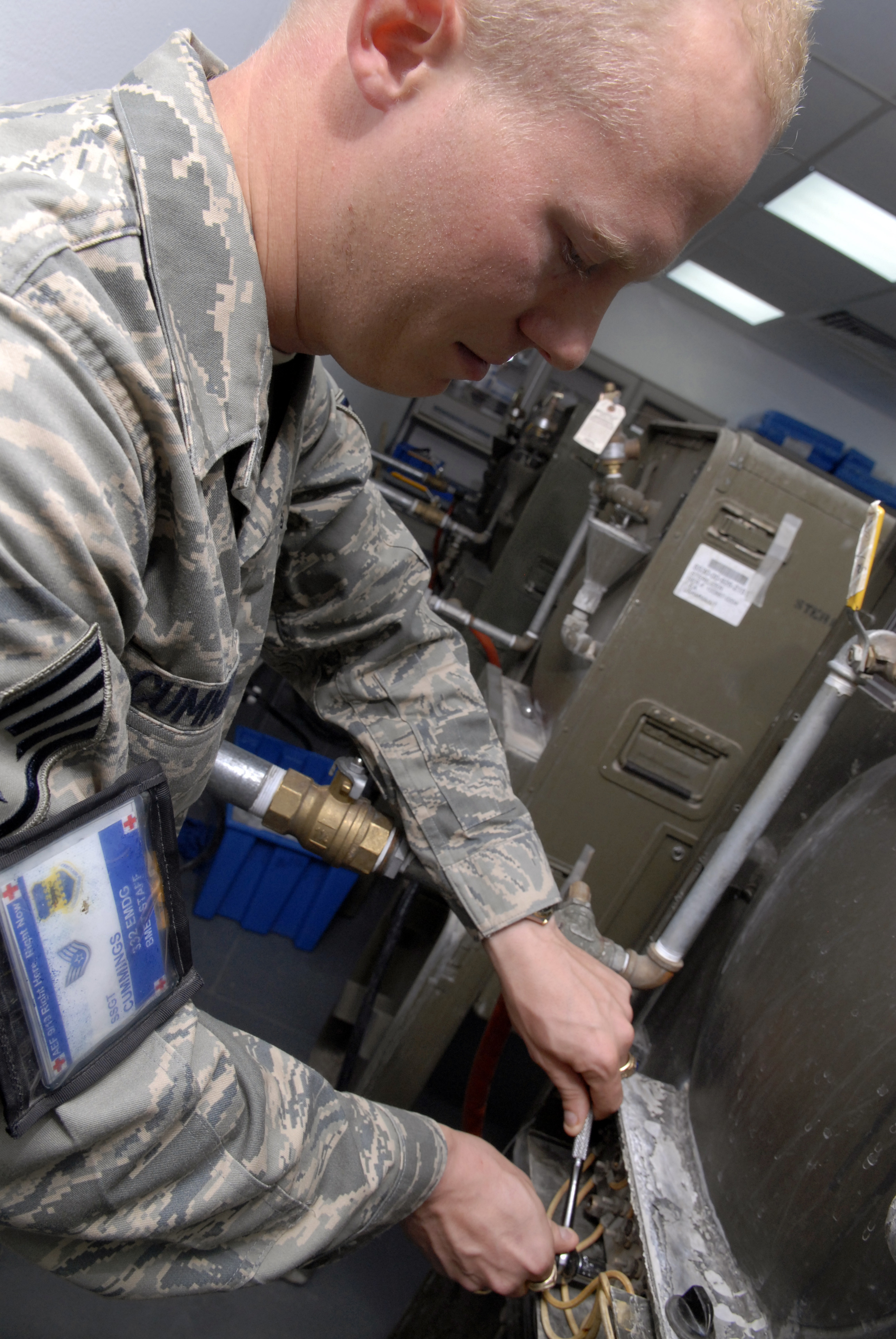 Staff Sgt. Brian Cummings, 332nd Expeditionary Medical Support Squadron, performs preventive maintenance on a sterilizer in the Air Force Theater Hospital, Oct. 17. Cummings and fellow members of the biomedical equipment shop are in charge of maintaining all medical equipment in the AFTH.